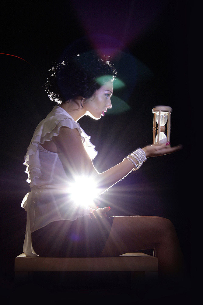 Painting with light - Paweł Matyka.